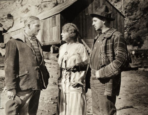 Lumberman Jack Fyfe (played by Wallace Reid at left) is interested in Stella Benton (Kathlyn Williams). She is the cook for her brother Charlie Benton (Alfred Paget, right) at his lumber camp in this scene still for the 1917 silent drama Big Timber.